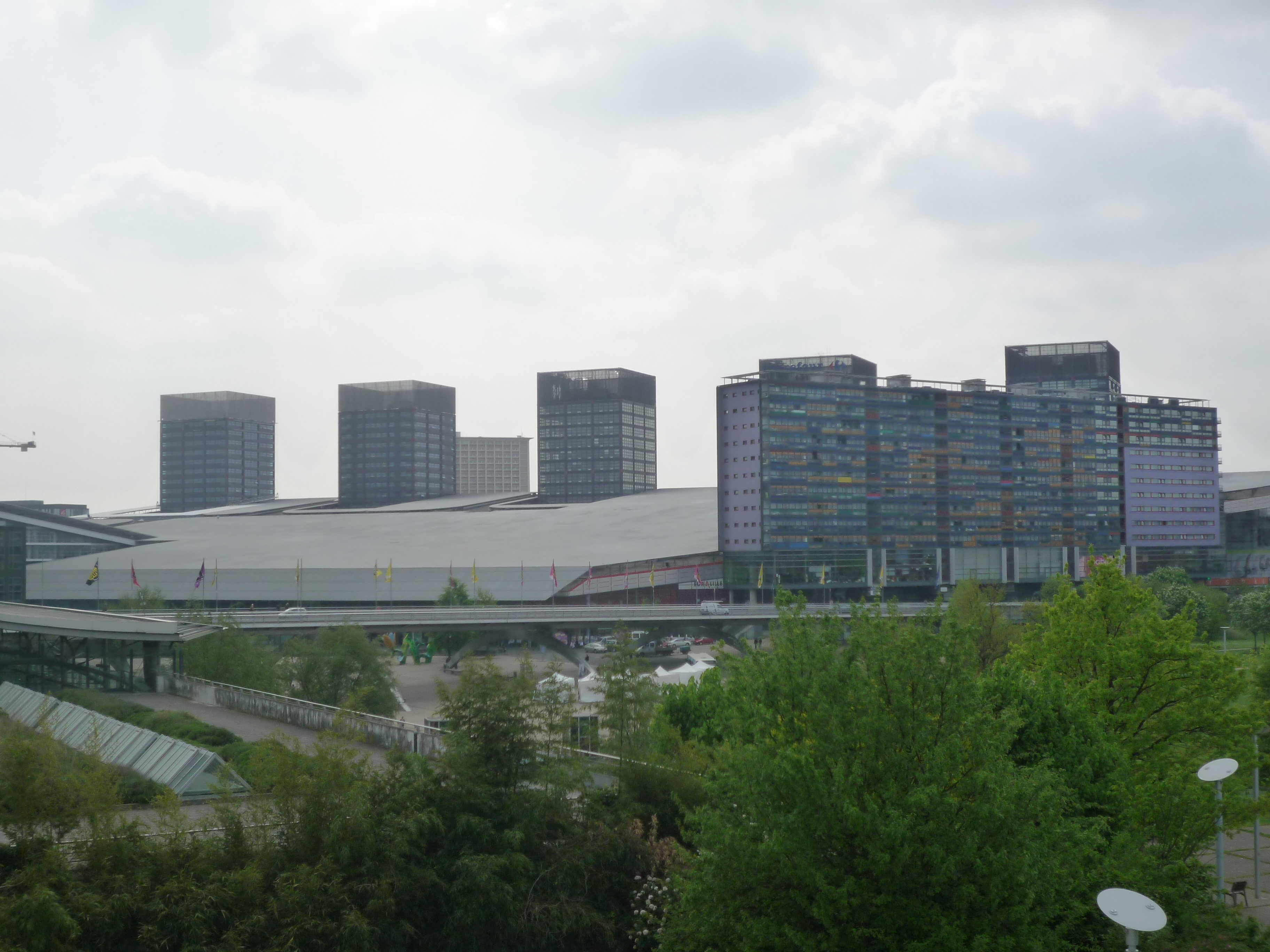 Euralille, Lille, France.